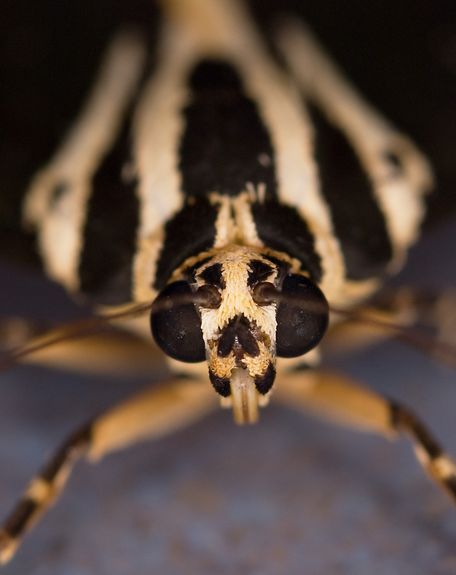 Jersey Tiger (Stuttgart, Germany)